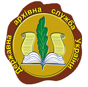 Logo og State archive service of Ukraine